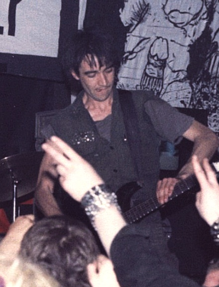 Andy Palmer on stage with Crass, 1984.